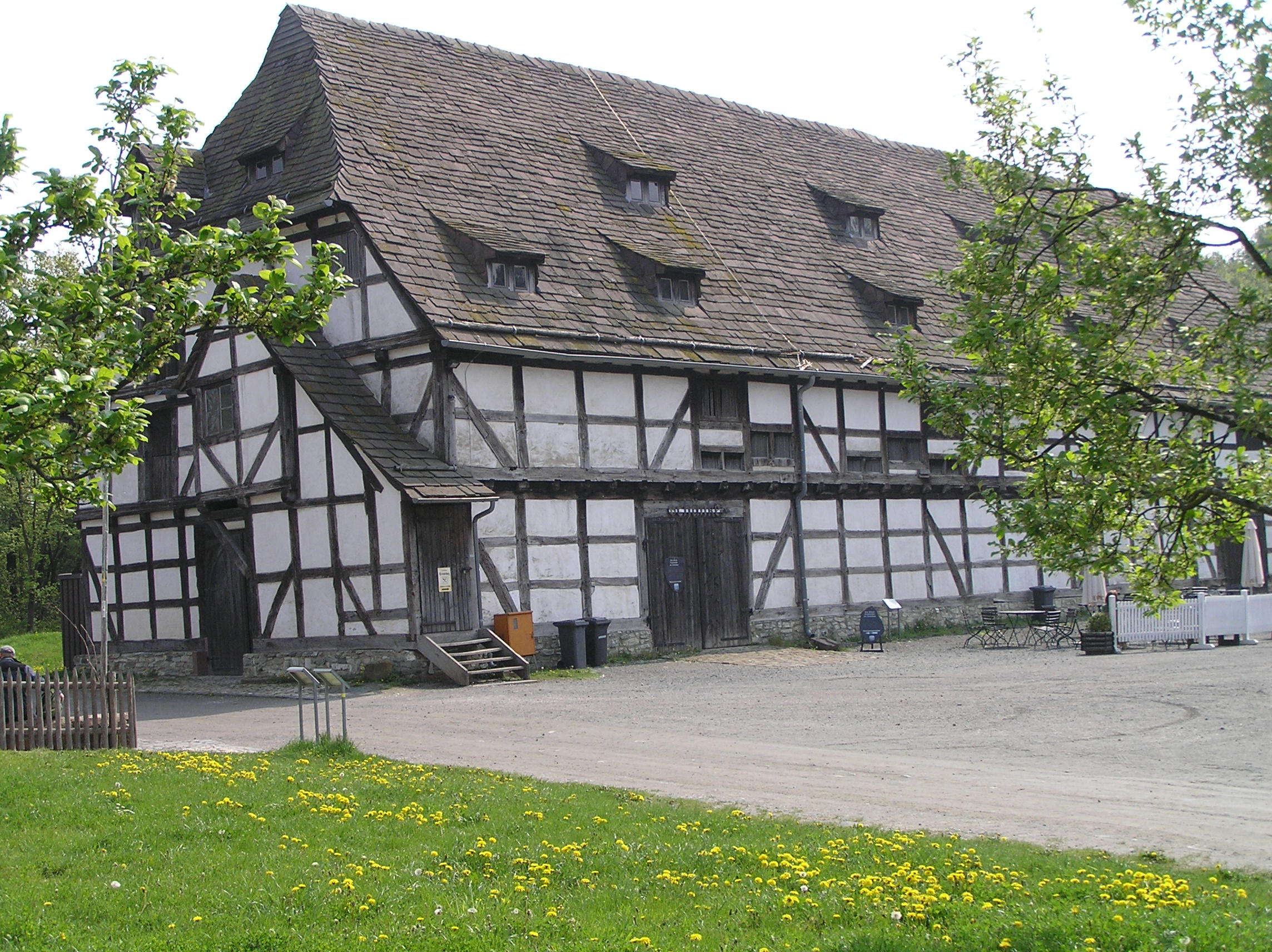 Tithe barns in Hessenpark, Hesse, Germany